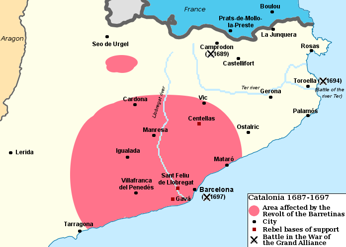 Map of Catalonia with notable areas involved in the Revolt of the Barretinas highlighted and marked on the map. Cities of battles in the Catalonian theatre of the Nine Years War are noted as well.